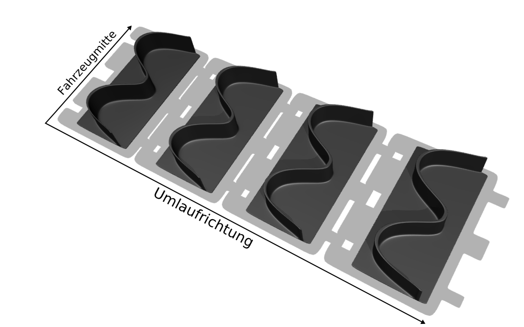 Schematische Anordnung der Paddelbleche von LVT-2 und neuerer Versionen Schematic setup of the paddle cleats of the LVT-2 and newer versions. The labels are: "Umlaufrichtung"="Rotating direction" and "Fahrzeugmitte" = "Middle of vehicle".